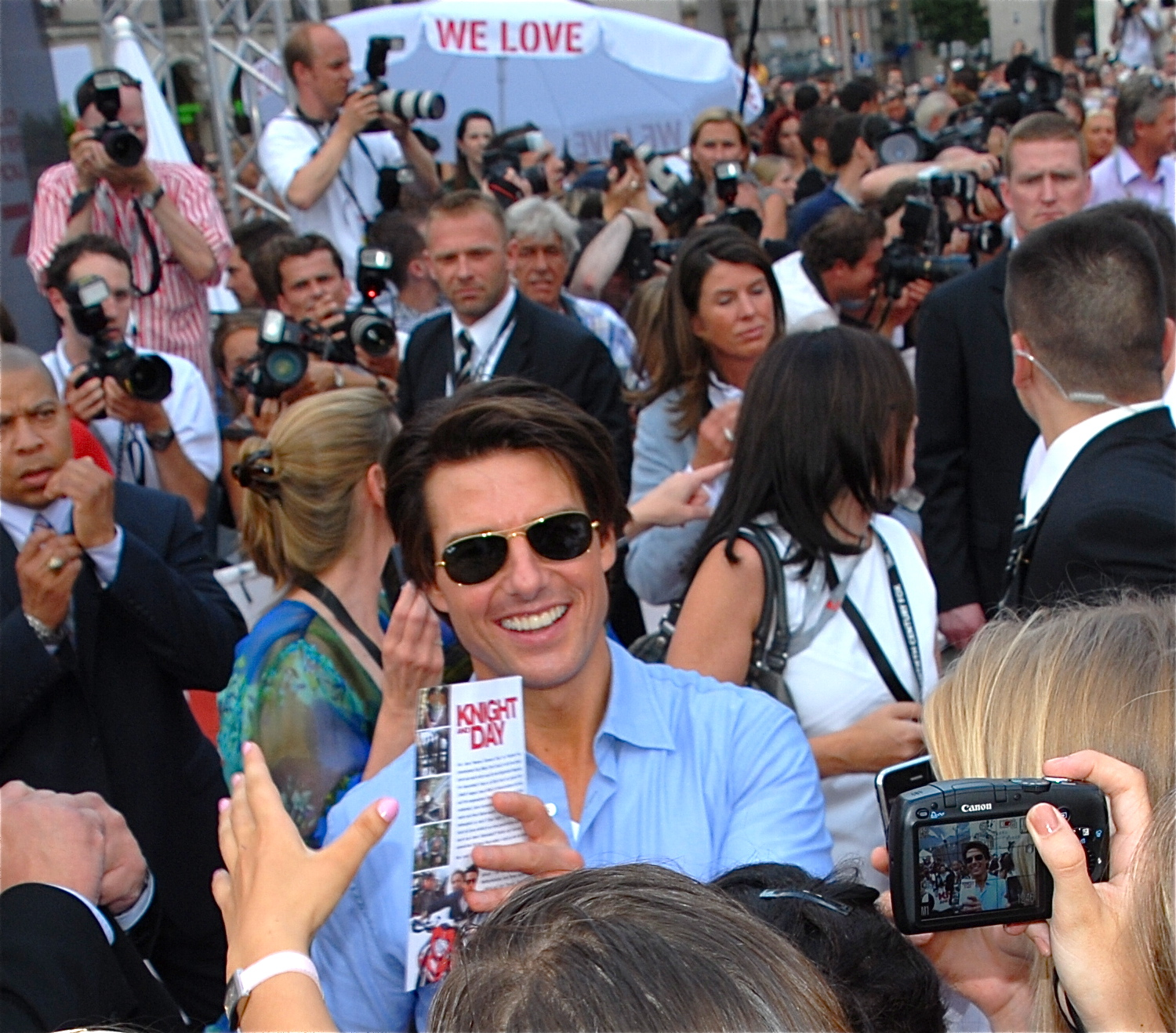 Tom Cruise befor the premiere of Knight & Day in Munich July 21, 2010.